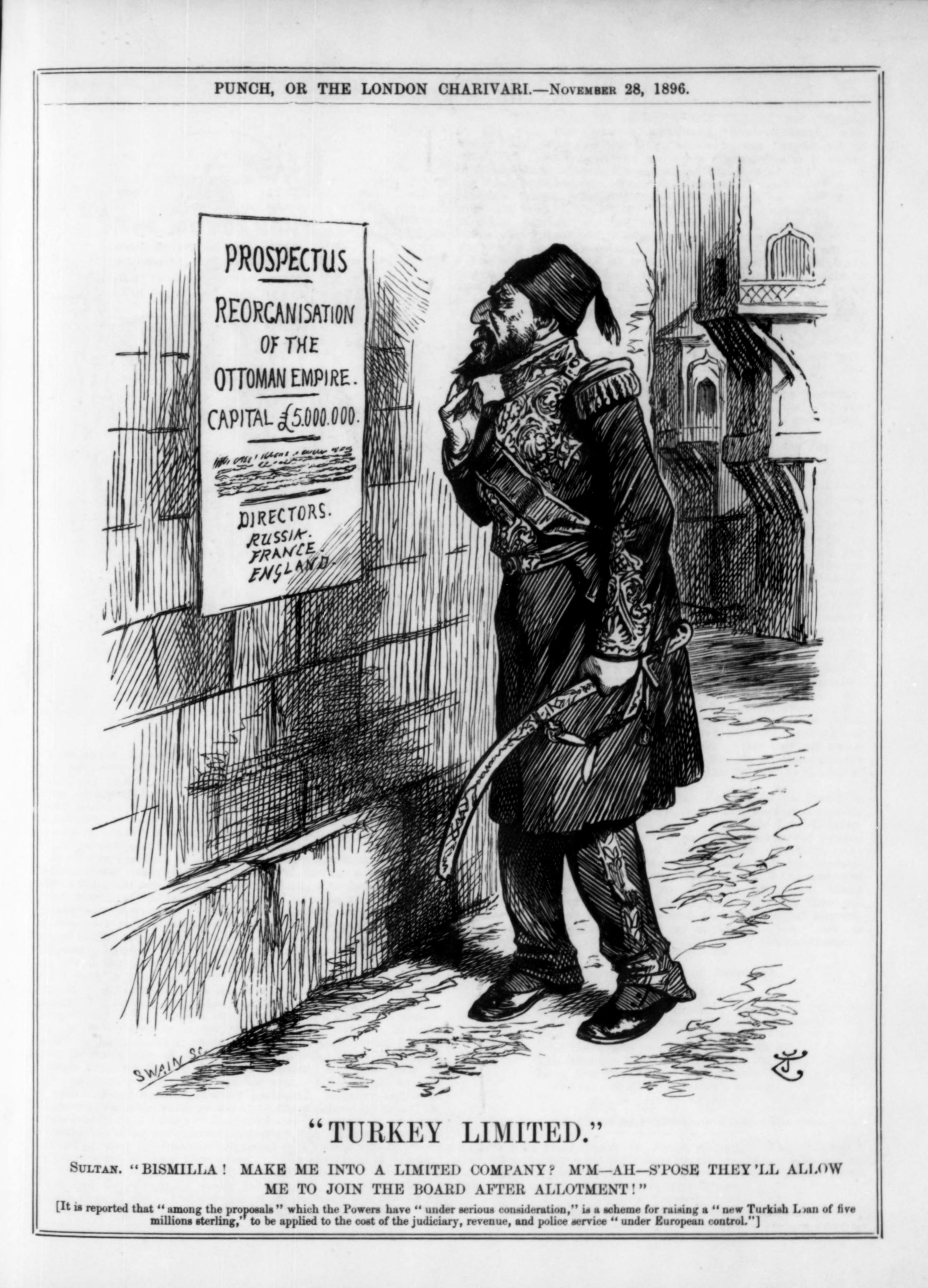 Caricature from the punch magazine. It shows Sultan Abdul Hamid II. in front of a poster which announces the reorganisation of the Ottoman Empire. The empire's value is estimated at 5 million pounds. Russia, France and England are mentioned as the directors of the reorganisation. The Sultan says: "For God's sake! (Bismillah) Make me into a limited company? M'M - AH - I suppose they'll allow me to join the board after allotment." The caricature refers to the weakness of the Ottoman Empire around the turn of the century (Sick man of Europe), making it the cue ball of European powers.